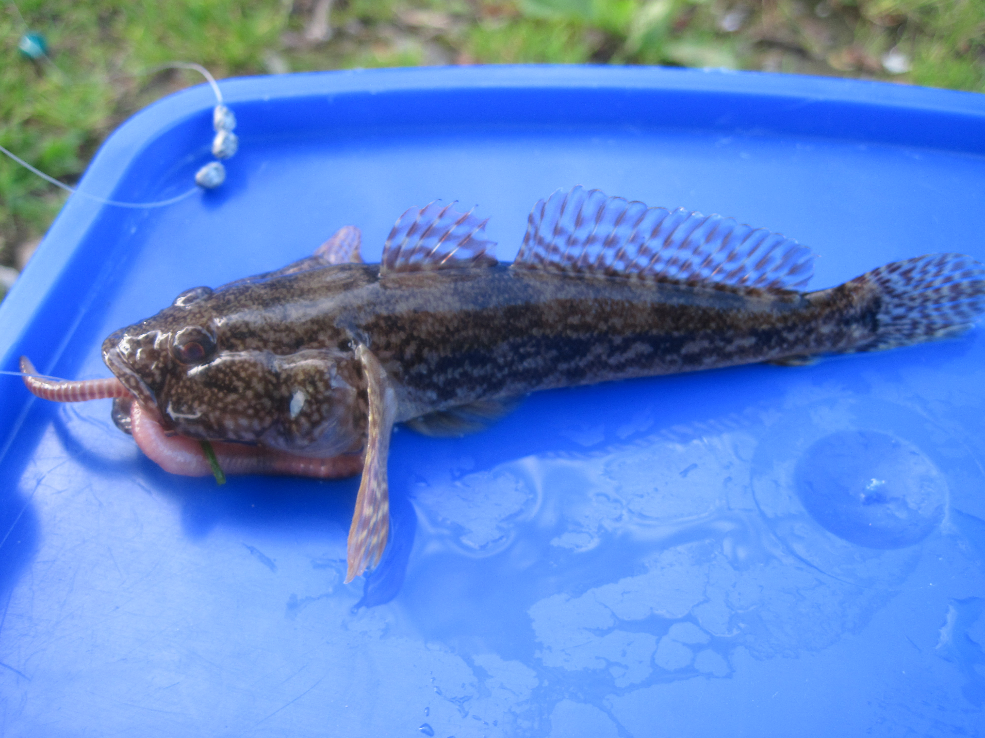 Caught Cottus Gobio in Dutch river the Merwede.